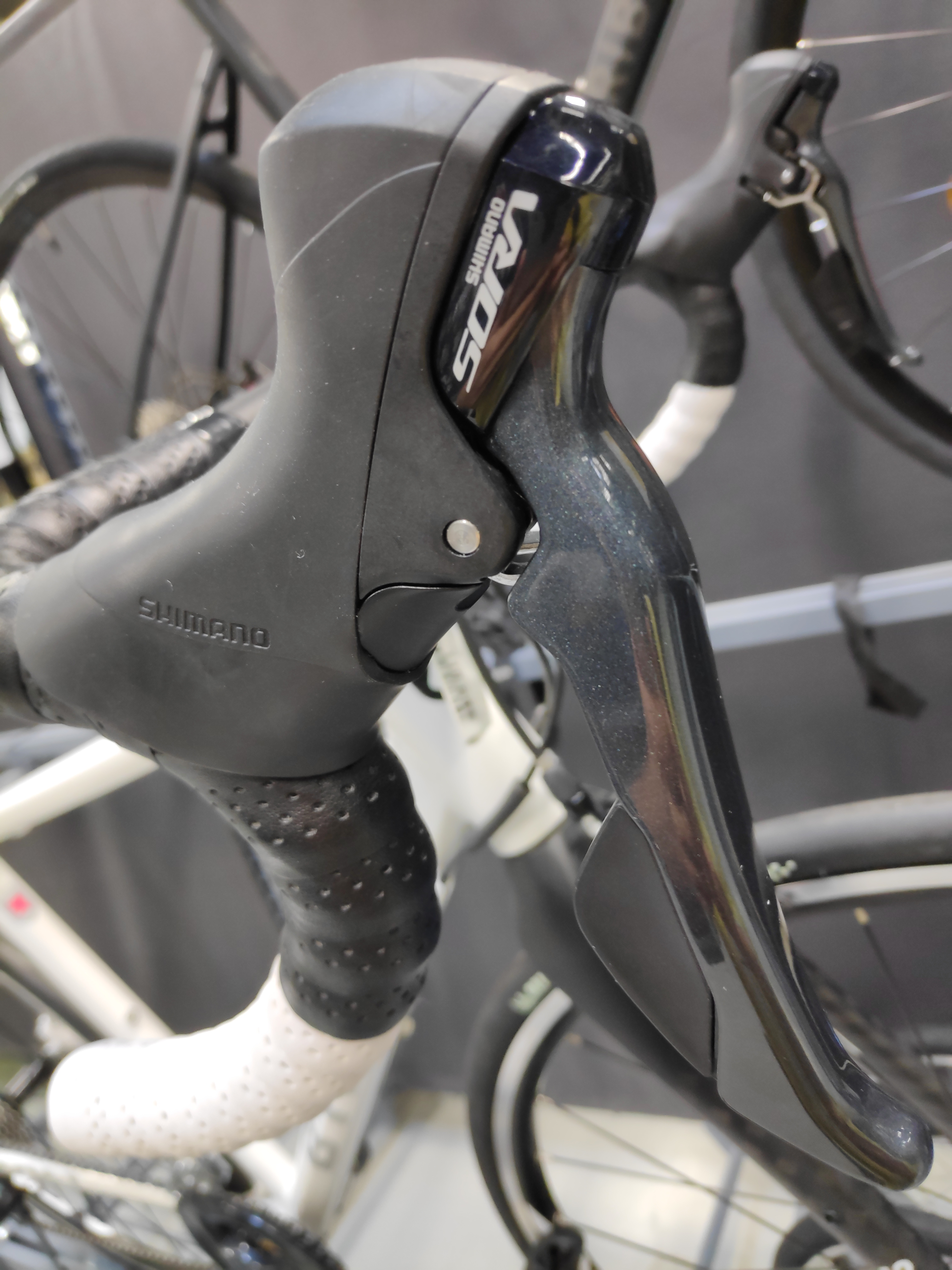 Shimano Sora (R3000) levers